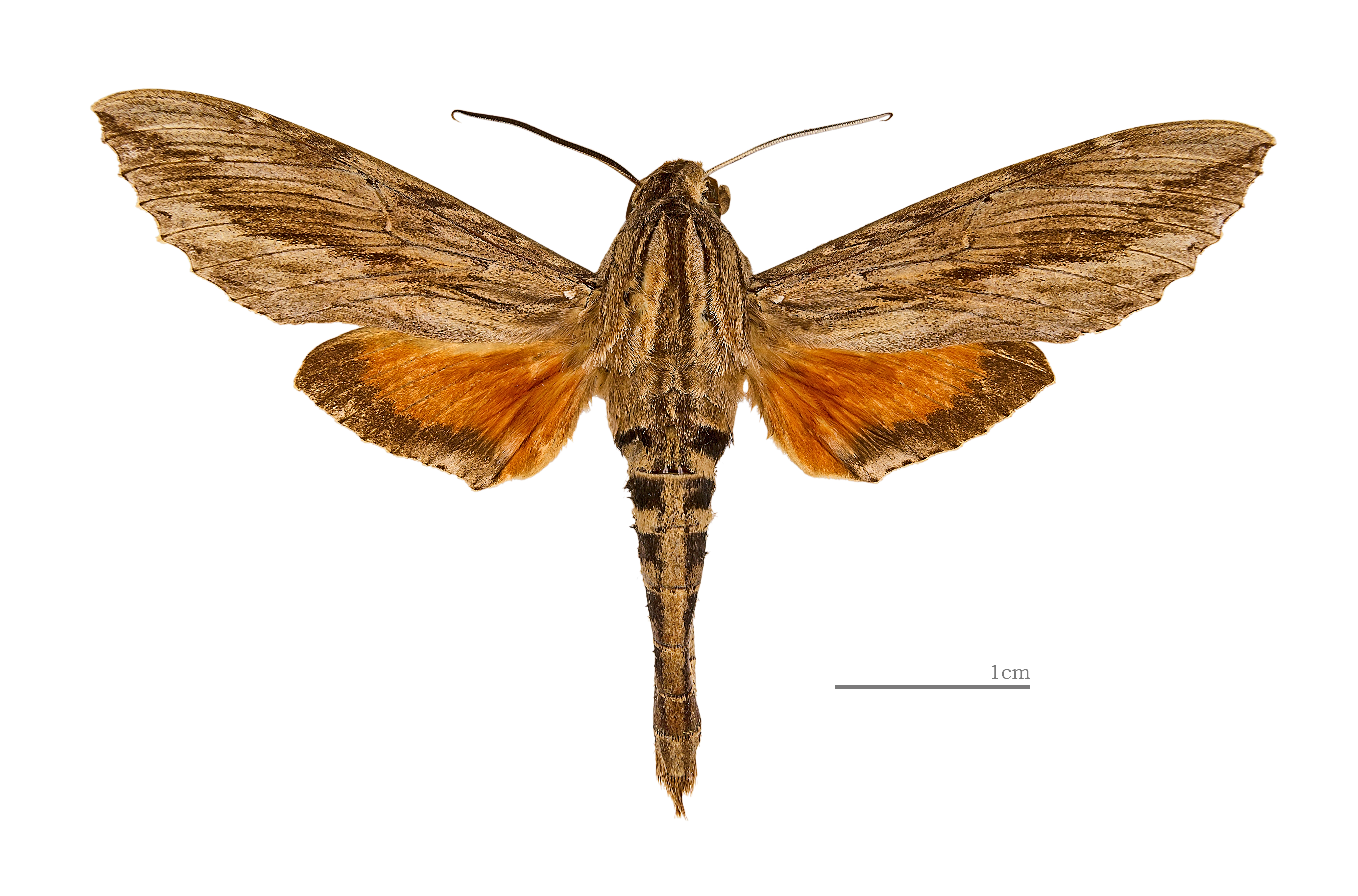 Erinnyis ello - Dorsal side